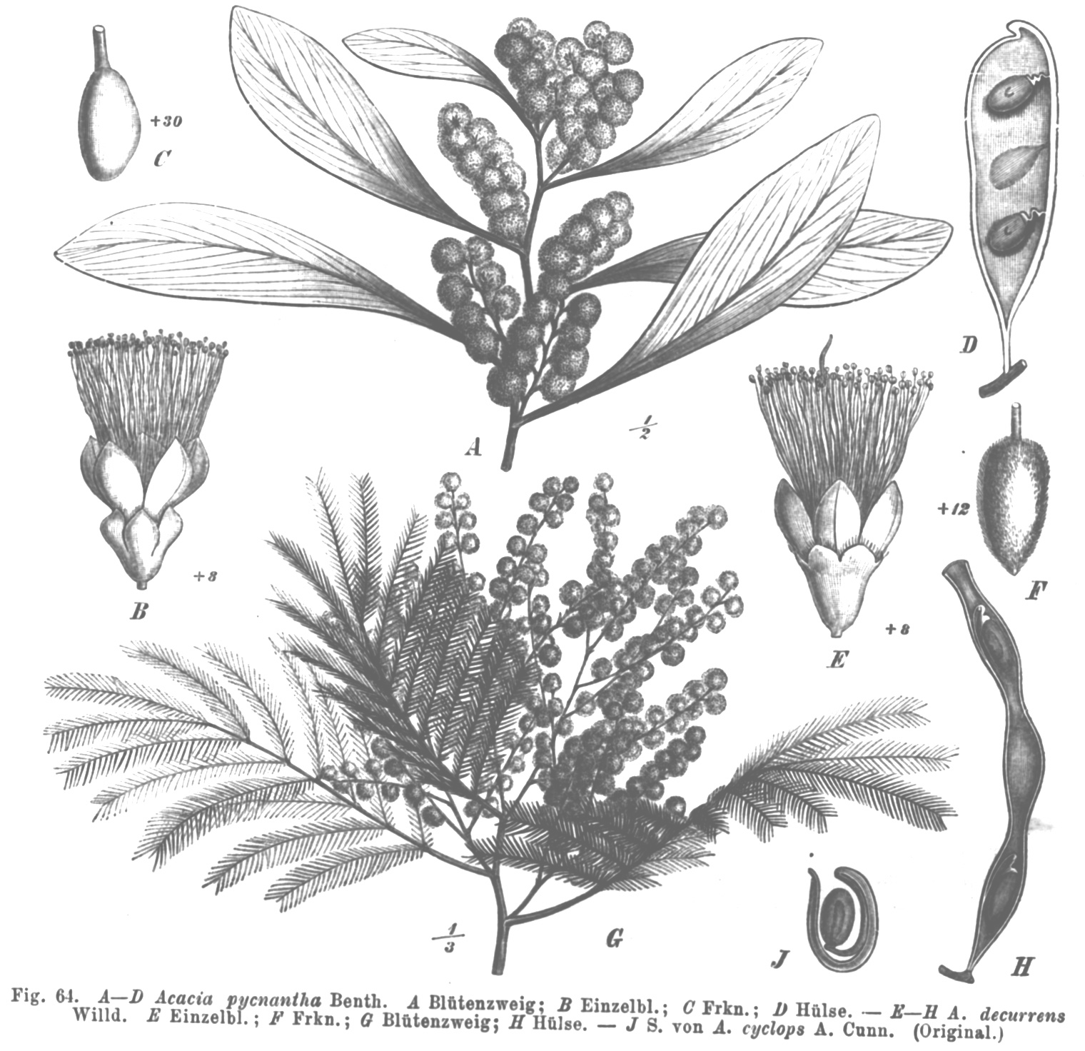 Illustration from book Fig. A - D Acacia pycnantha Fig. E - H Acacia decurrens Fig. H Acacia cyclops